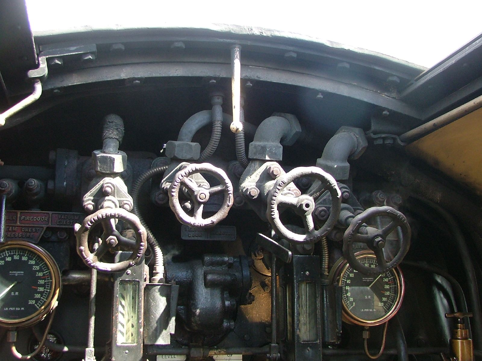 The "Steam fountain" which supplies various devices on Blackmore Vale such as the electric turbogenerator for its electric lighting.